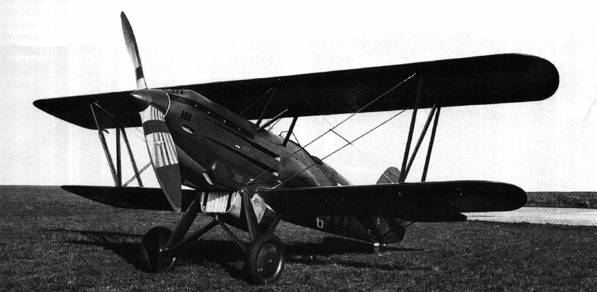 Czechoslovak Avia B-534 fighter aircraft, 2nd variant.